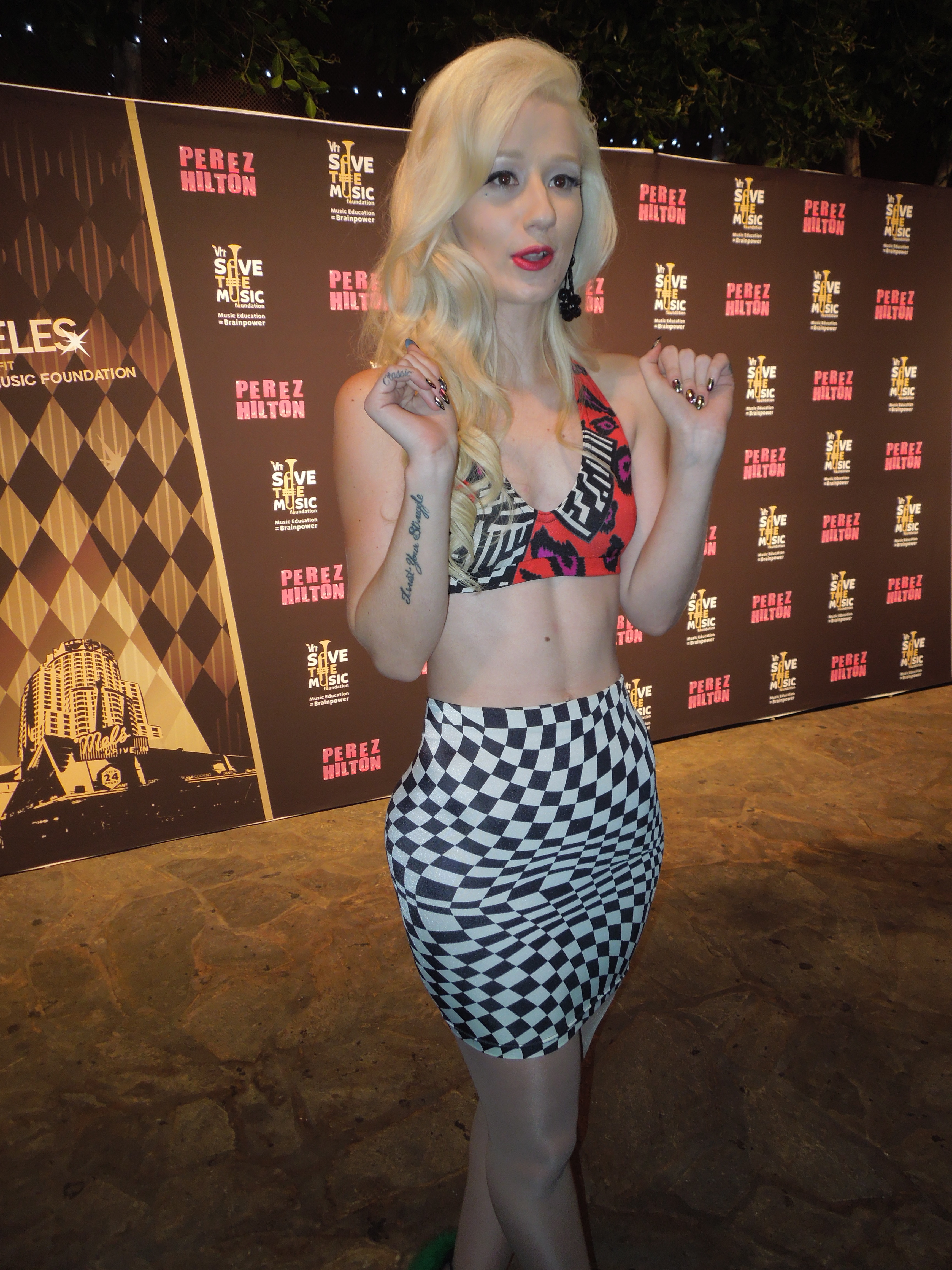 Australian rapper Iggy Azalea strikes a pose as she enters The Belasco before her performance. (Sarah Mickelson/ Neon Tommy)